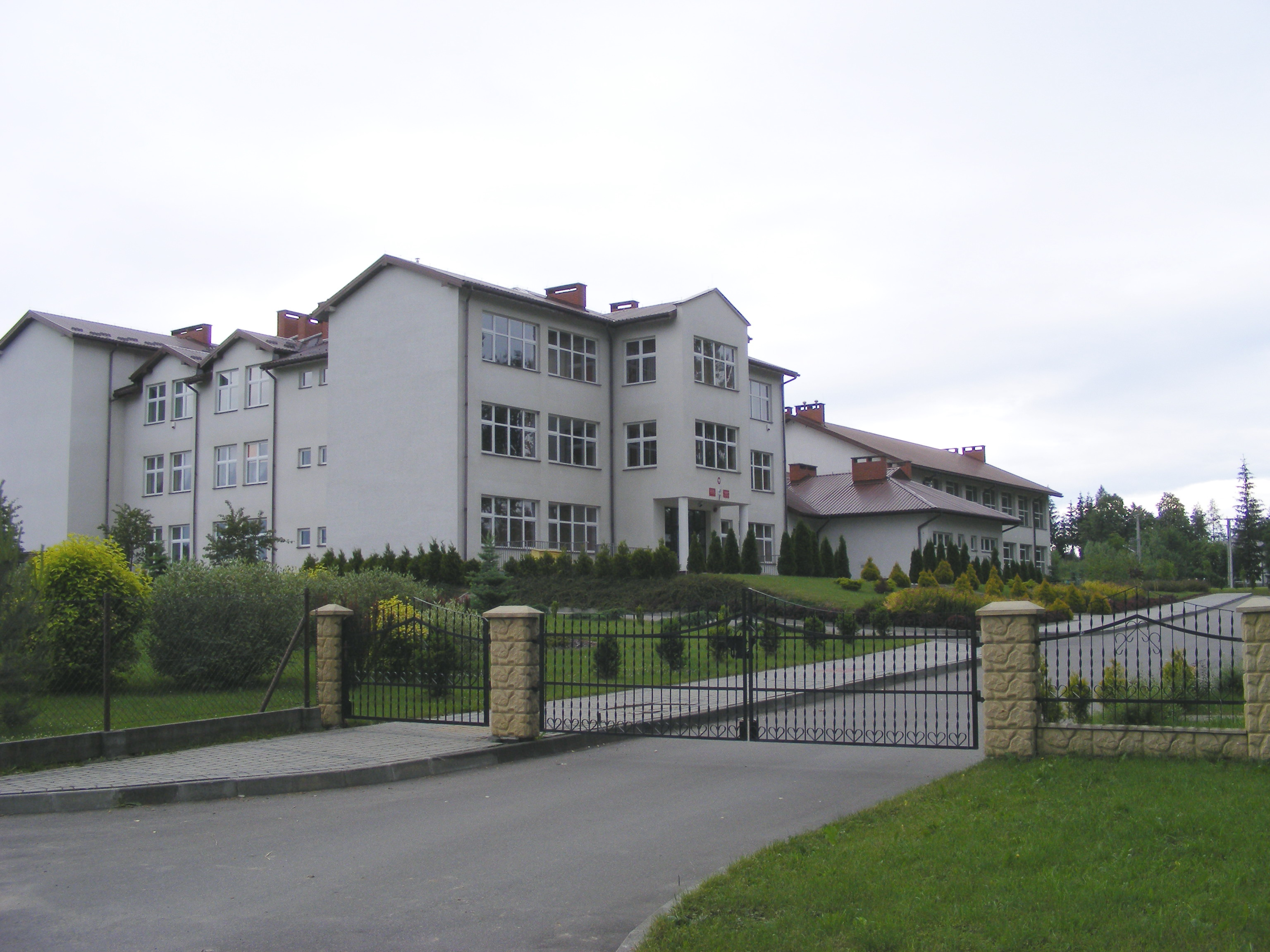 School in Wróblik Szlachecki